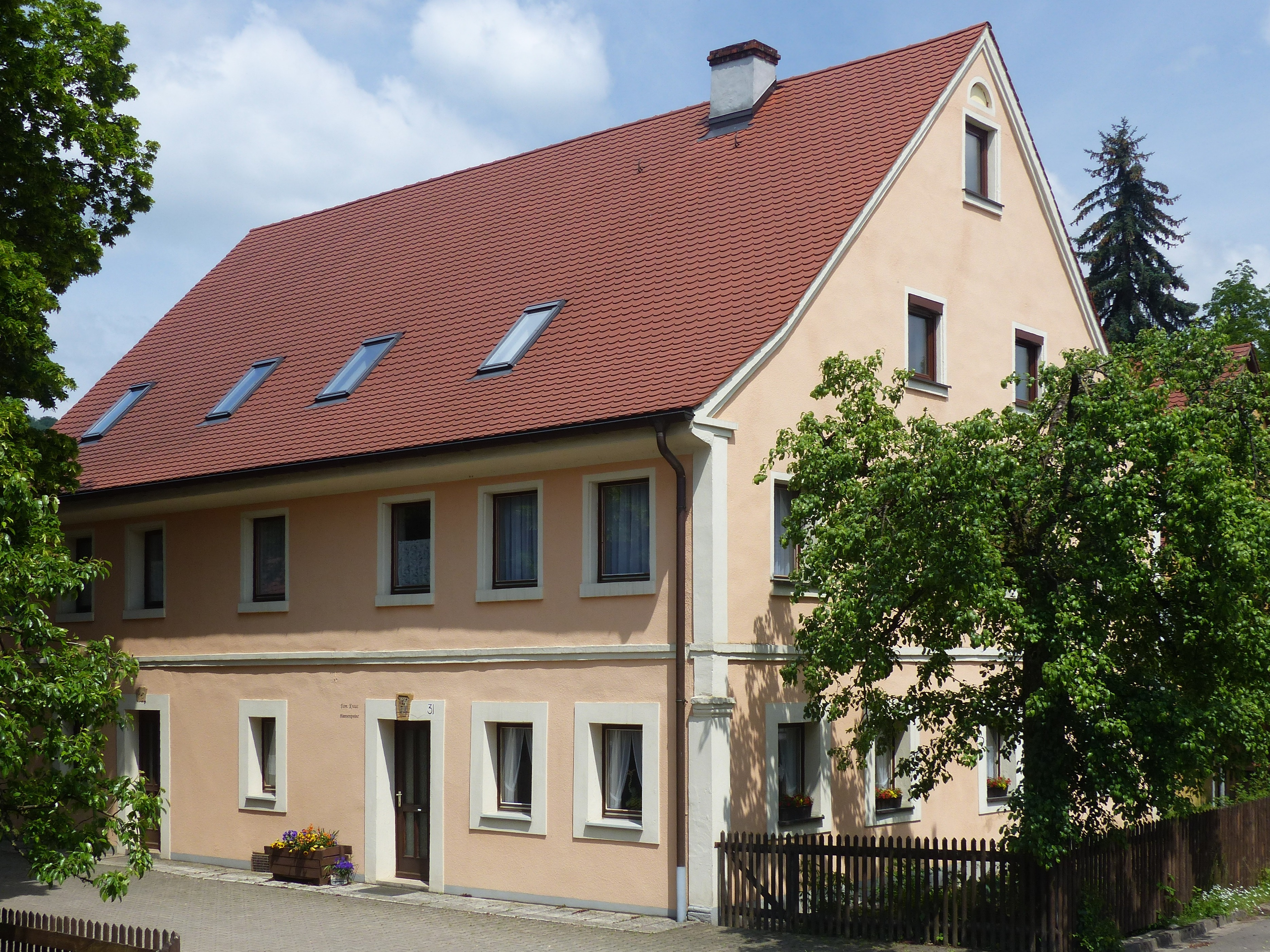 A farmhouse in the village Mitteldorf, a district of the municipality of Igensdorf